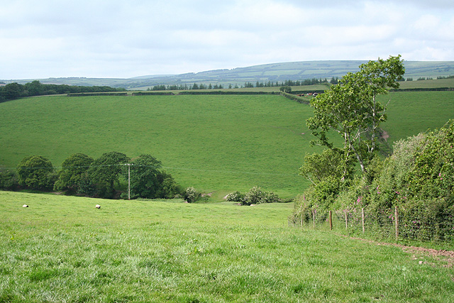 North Molton: near Radworthy Down Looking north-north-west